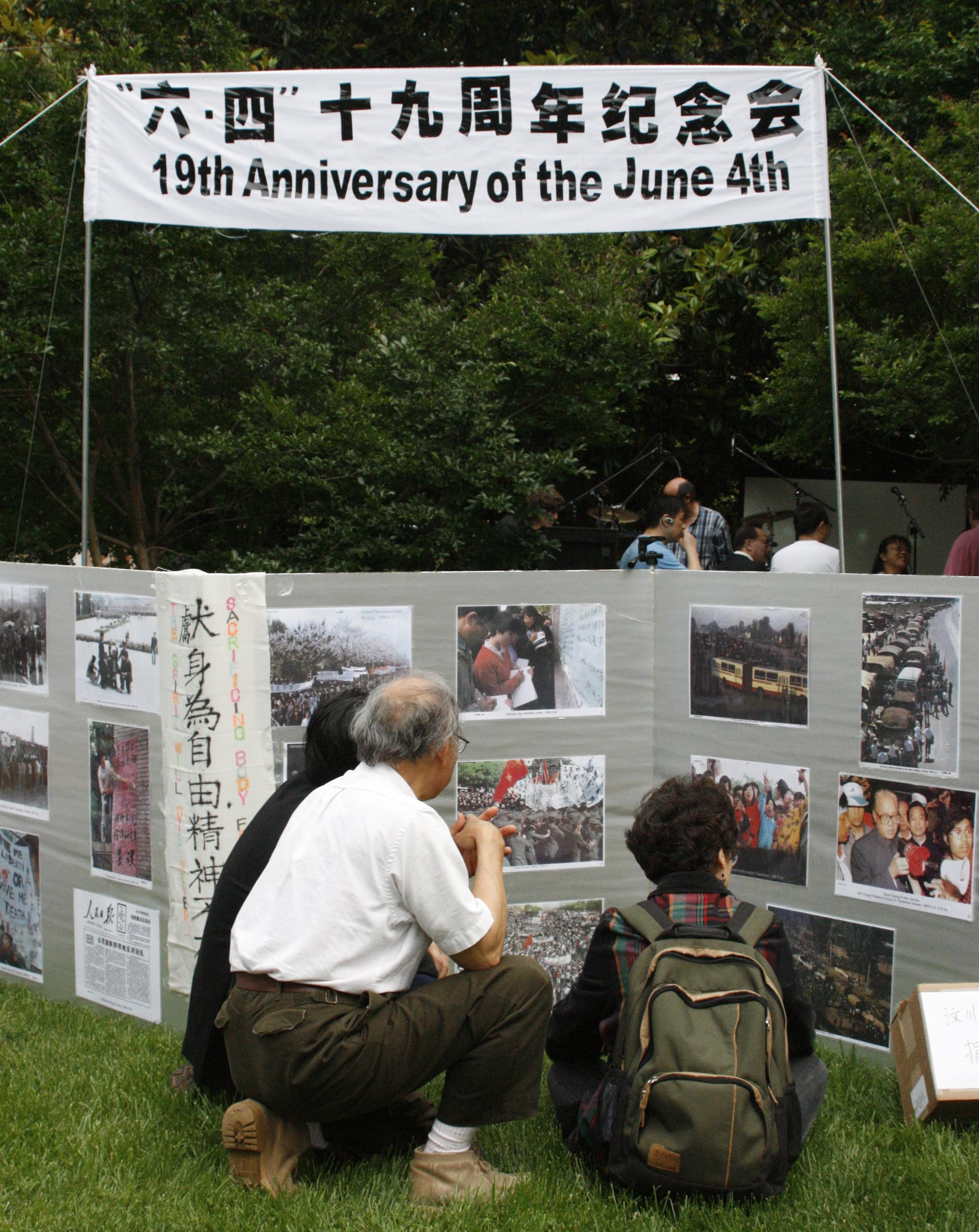 19th anniversary of the June 4th in Washington, D.C.